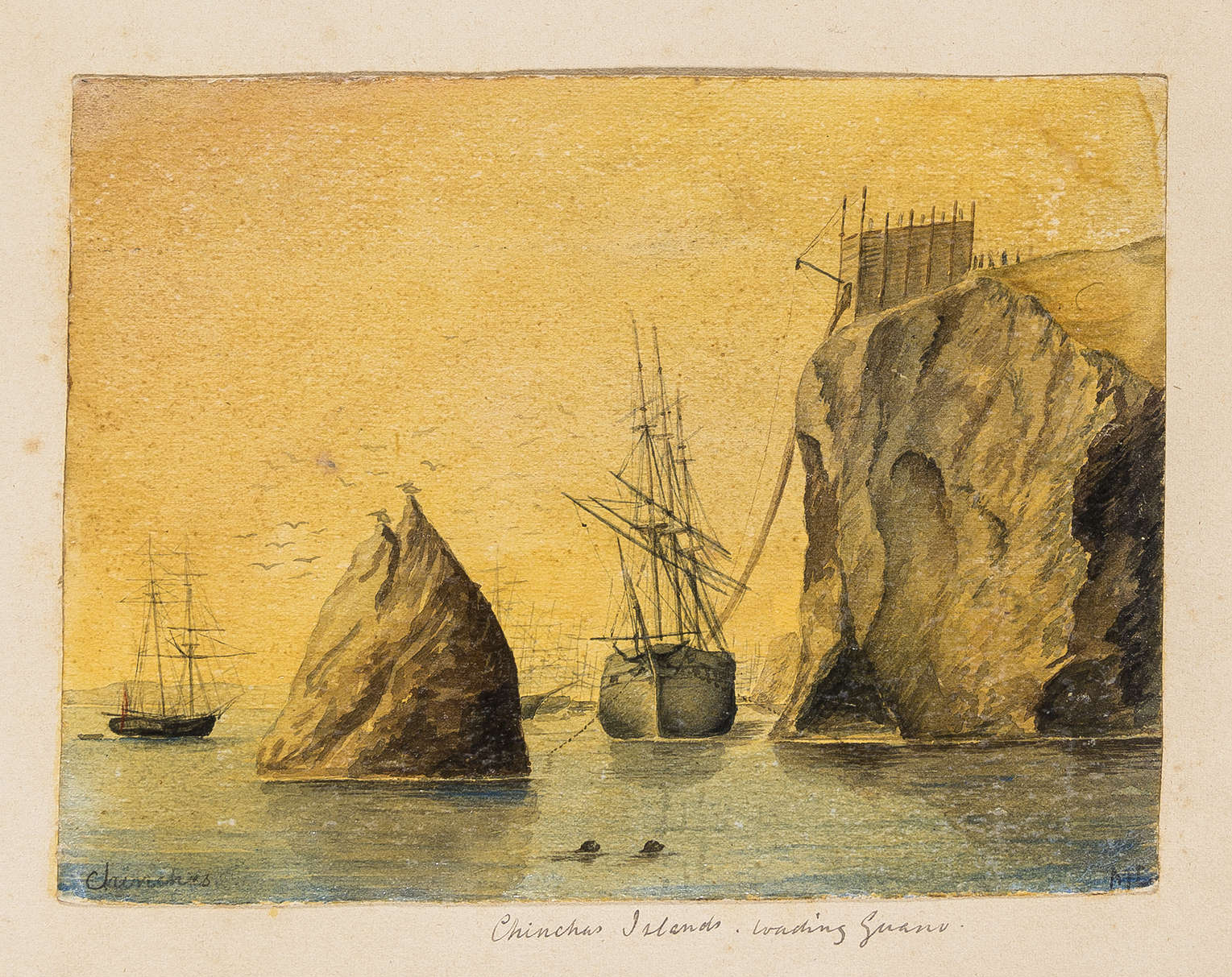 Chincha Islands Taken from an album Scraps of 166 original watercolours and drawings made on voyages between 1842 and 1853, by Captain Marcus Lowther RN, later Rear-Admiral; pasted onto album leaves, each album leaf approx. 350 x 270 mm. (13 ¾ x 10 ½ in).